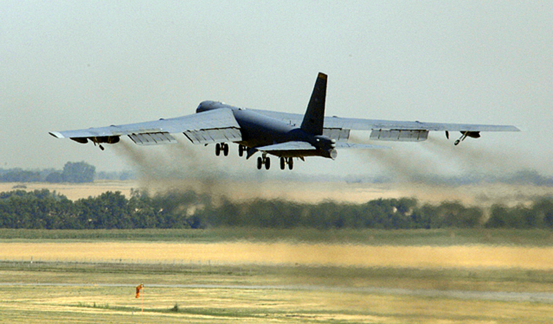 A B-52H bomber departs Minot Air Force Base in 2007.